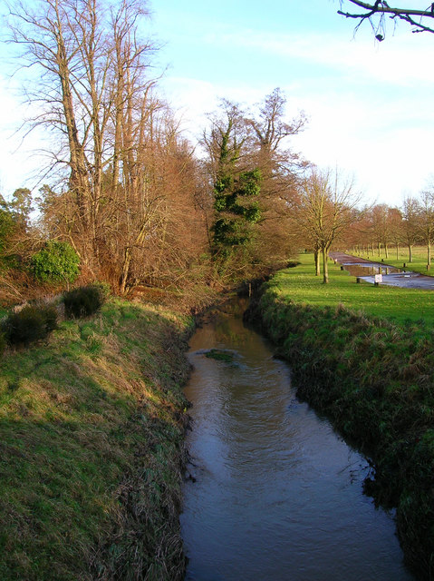 River Grom A tributary of the Medway and the river that gave the village its name. It also marks the Kent-Sussex border from its confluence with the Medway to High Rocks near Tunbridge Wells. The driveway on the right is the route into Groombridge Place.